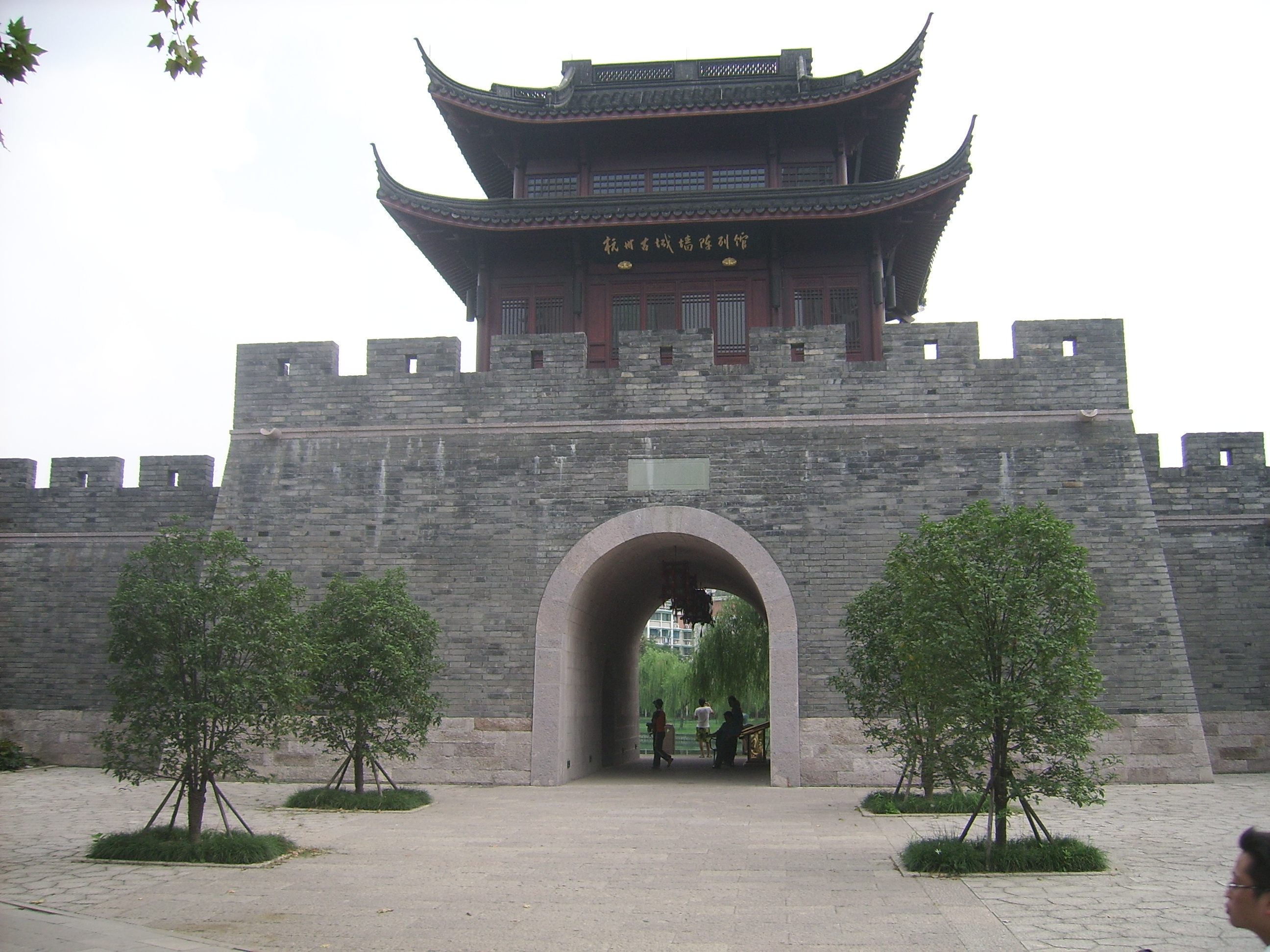 The Hangzhou City Walls Museum, a reconstruction of the Qingchun Gate which used to stand here.